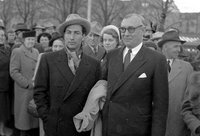 Sculptor Matti Haupt and shipping company owner Gustaf Thorden